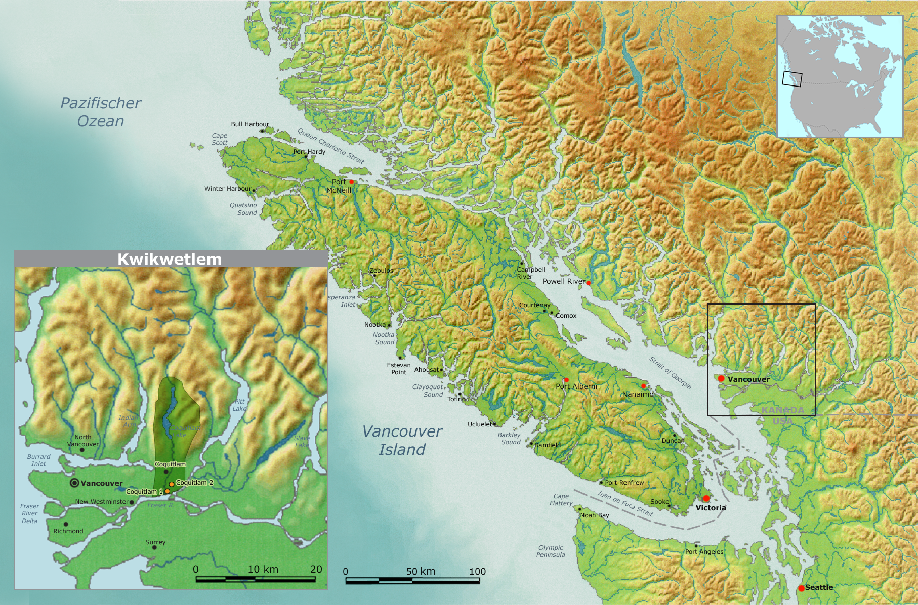 Map of traditional Kwickwetlem tribal territory.